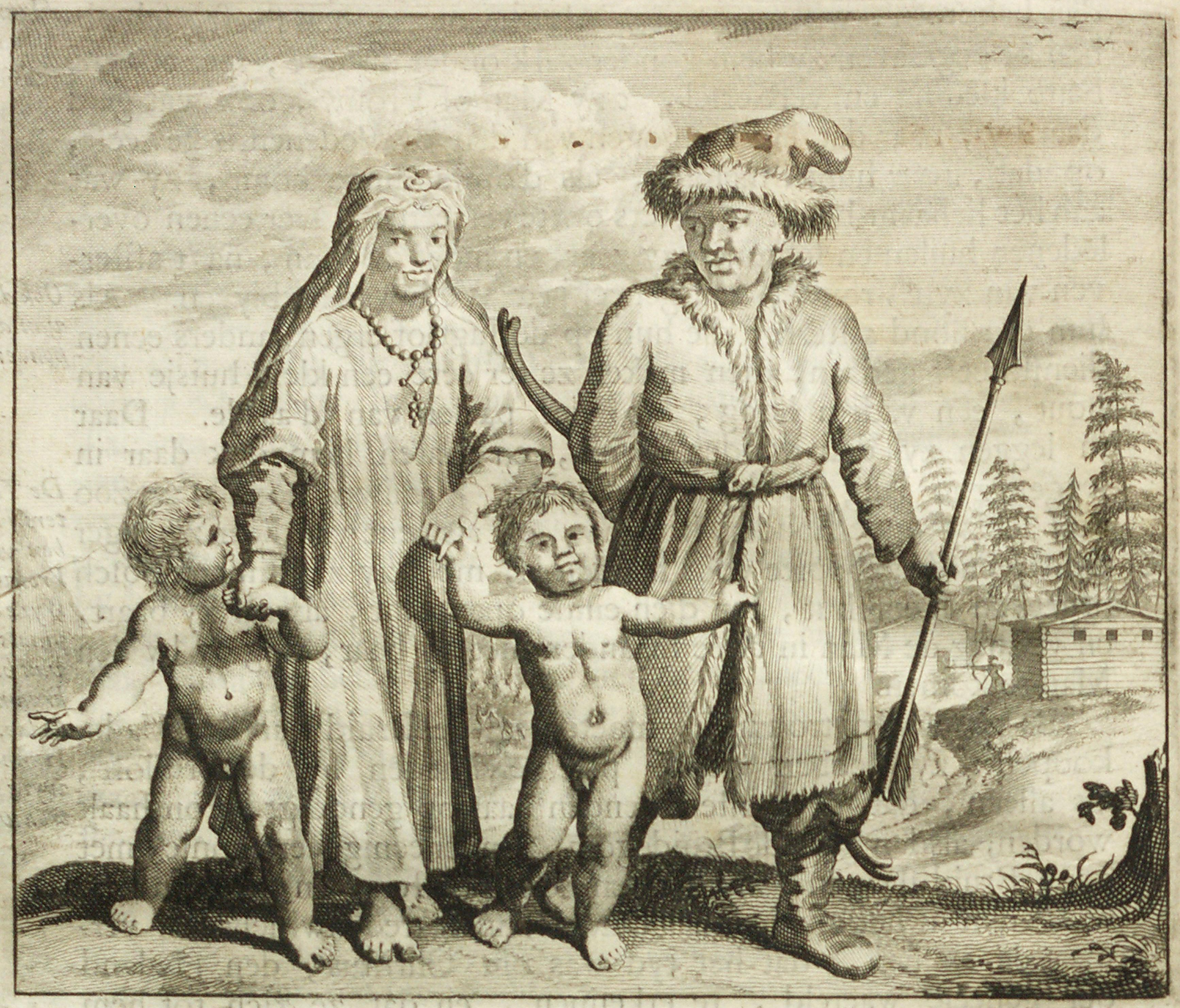 Page from Eberhard Isbrand Ides' Driejaarige reize naar China - Dutch edition from 1710.